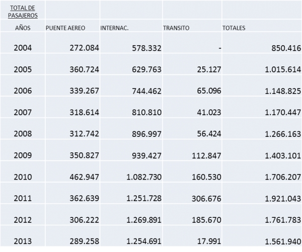 Carrraco AIC